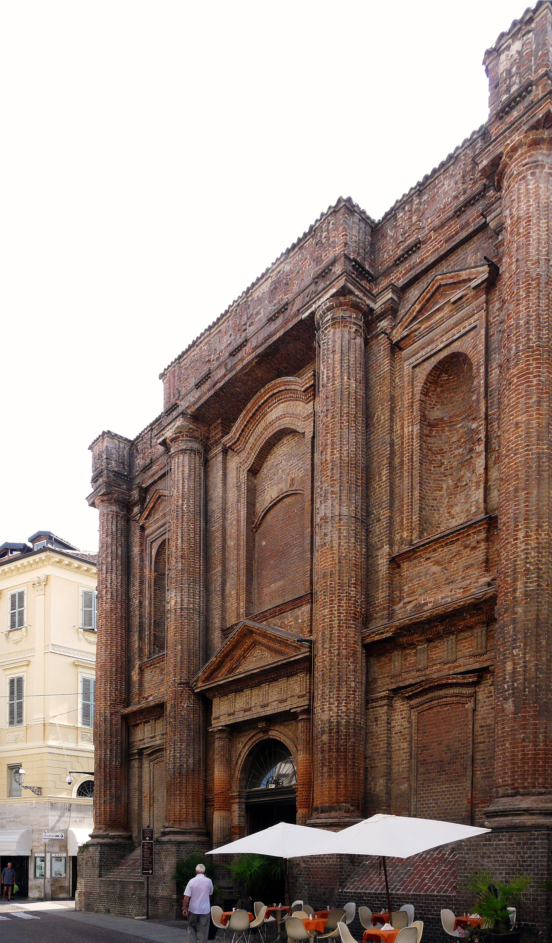 The deconsecrated church of Santa Croce in Via Roma, Casale Monferrato, Italy. The neo-classical façade to the existing Gothic church was designed by the local architect Francesco Ottavio Magnocavalli in 1748, the existing one having suffered fire damage. The project ran out of money on the death of its benefactors and was never completed; in particular the original design included a pediment and tympanum.